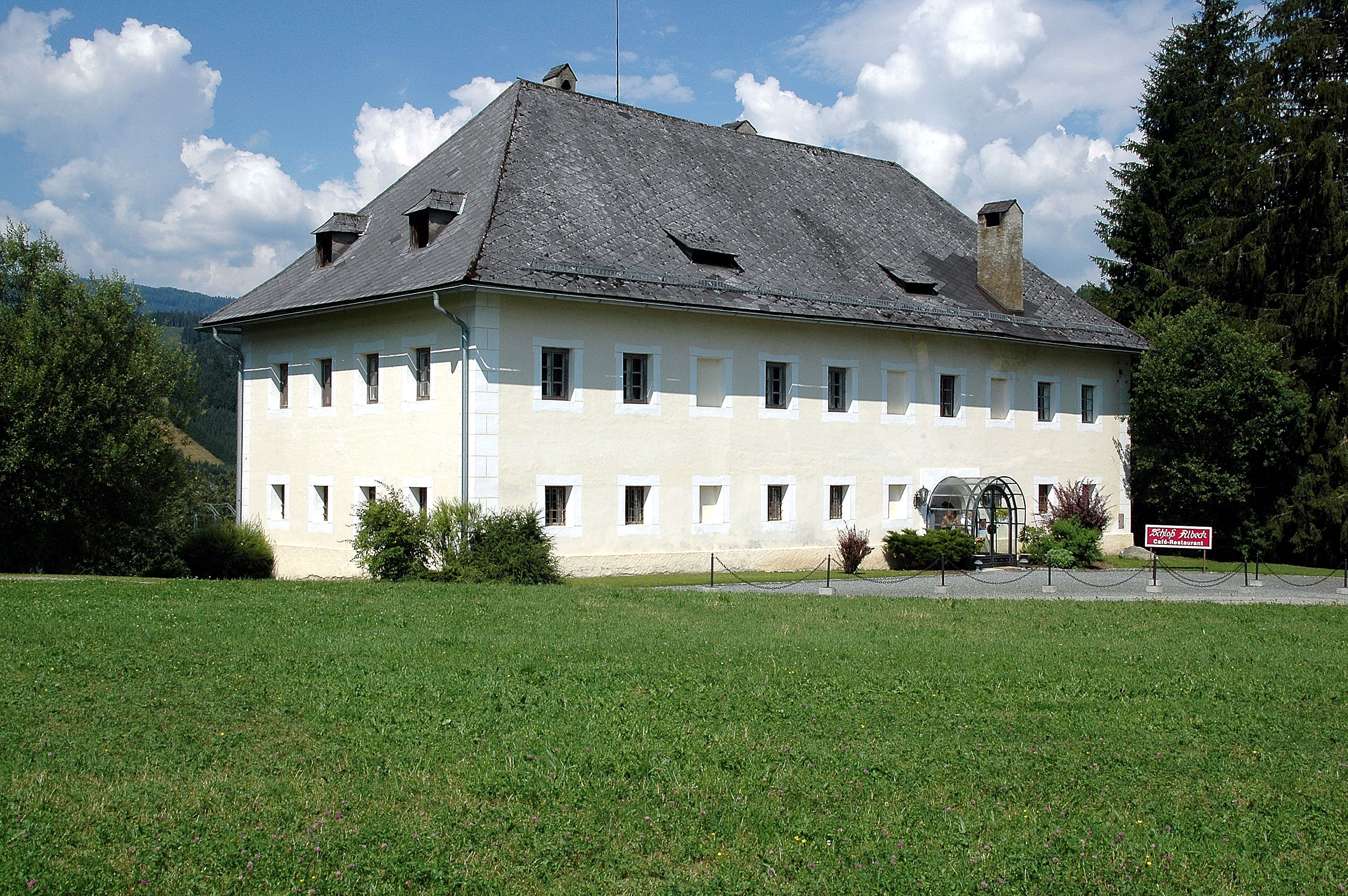 Castle Albeck at Neualbeck #1, municipality Albeck, district Feldkirchen, Carinthia, Austria, EU